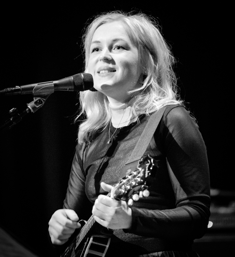 Siril Malmedal Hauge at the "Oslo Session Recordings" at Cosmopolite. The concert took place on 11. March 2018 in Oslo and marked the one year anniversery of record label and their third release, from Siril Malmedal Hauge. Lineup: Siril Malmedal Hauge (vocal), Jacob Young (guitar), Bendik Hofseth (saxophone), Mats Eilertsen (double bass), Mathias Eick (trumpet) and Paolo Vinaccia (drums).